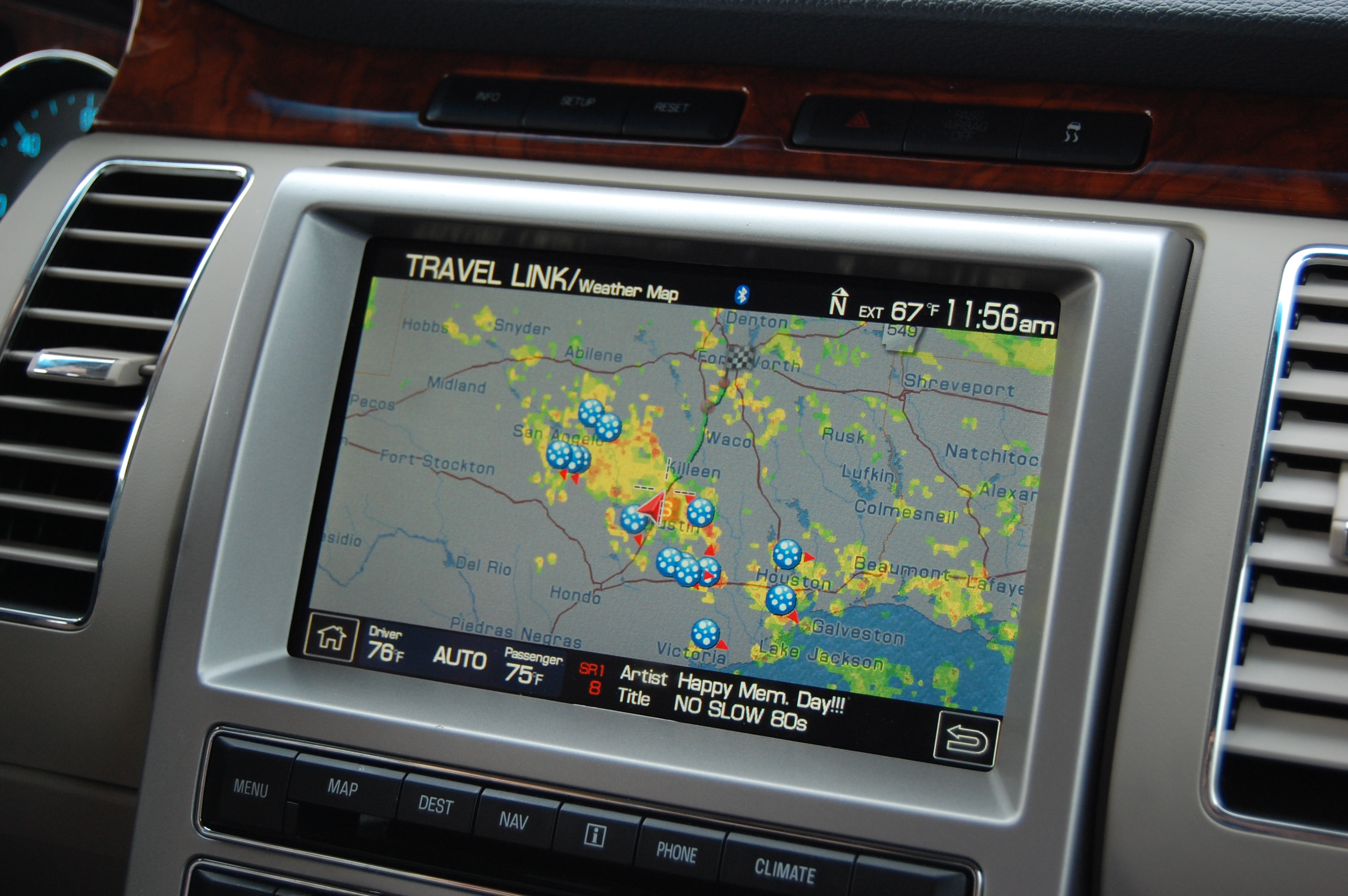 Navigation dashboard shows doppler radar